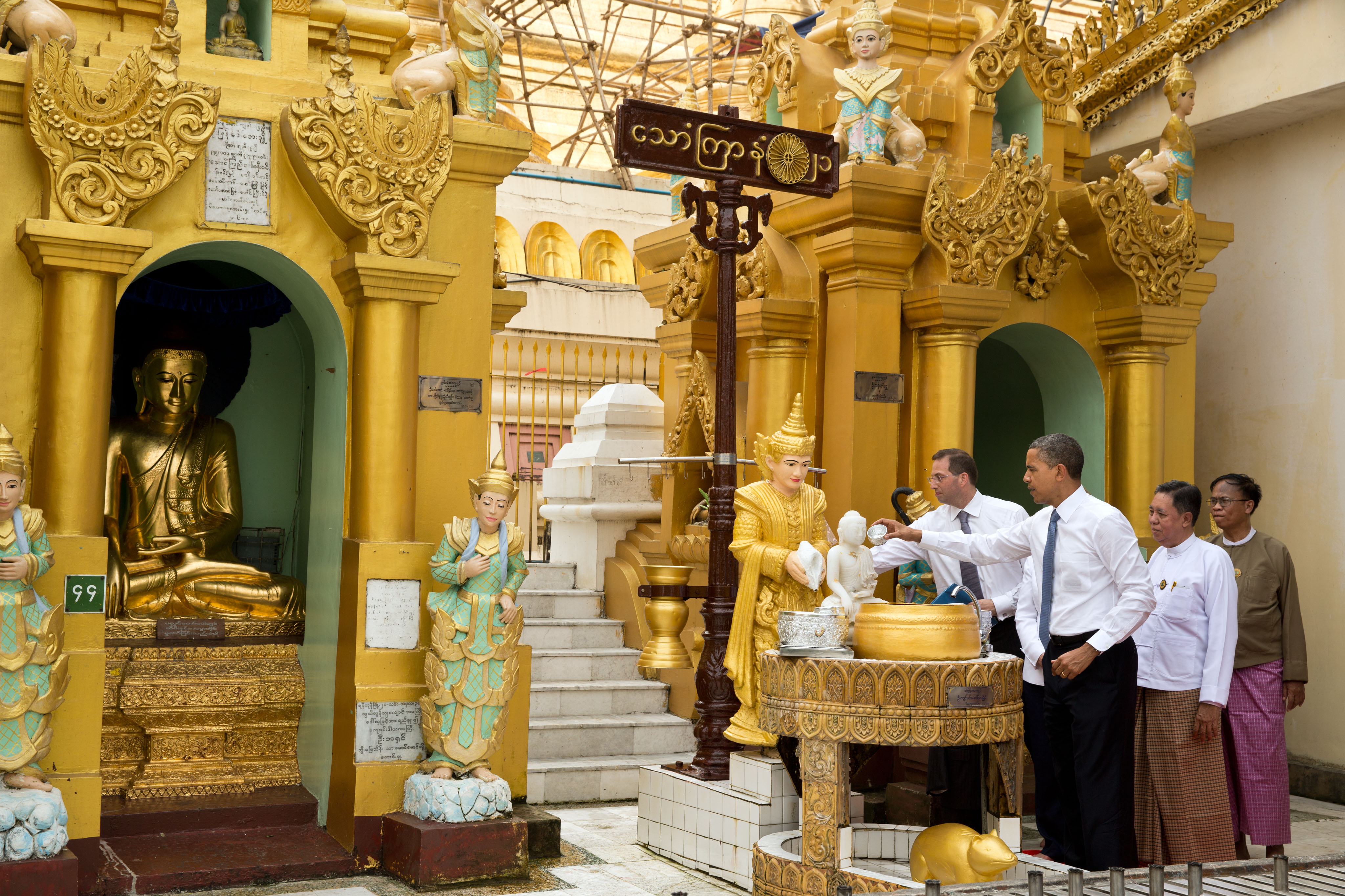 United States President Barack Obama pours water over the left shoulder of the Friday Buddha during a tour of the Shwedagon Pagoda in Rangoon on 19 November 2012.